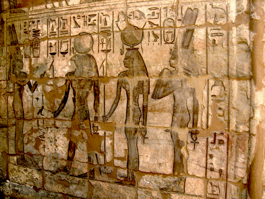 Shepenupet II making an offering to the gods Ra-Herakhty and Isis following by Amenirdis I, deceased - Chapels of god's Wifes of Amun at Medinet Habu - 25th dynasty of Egypt